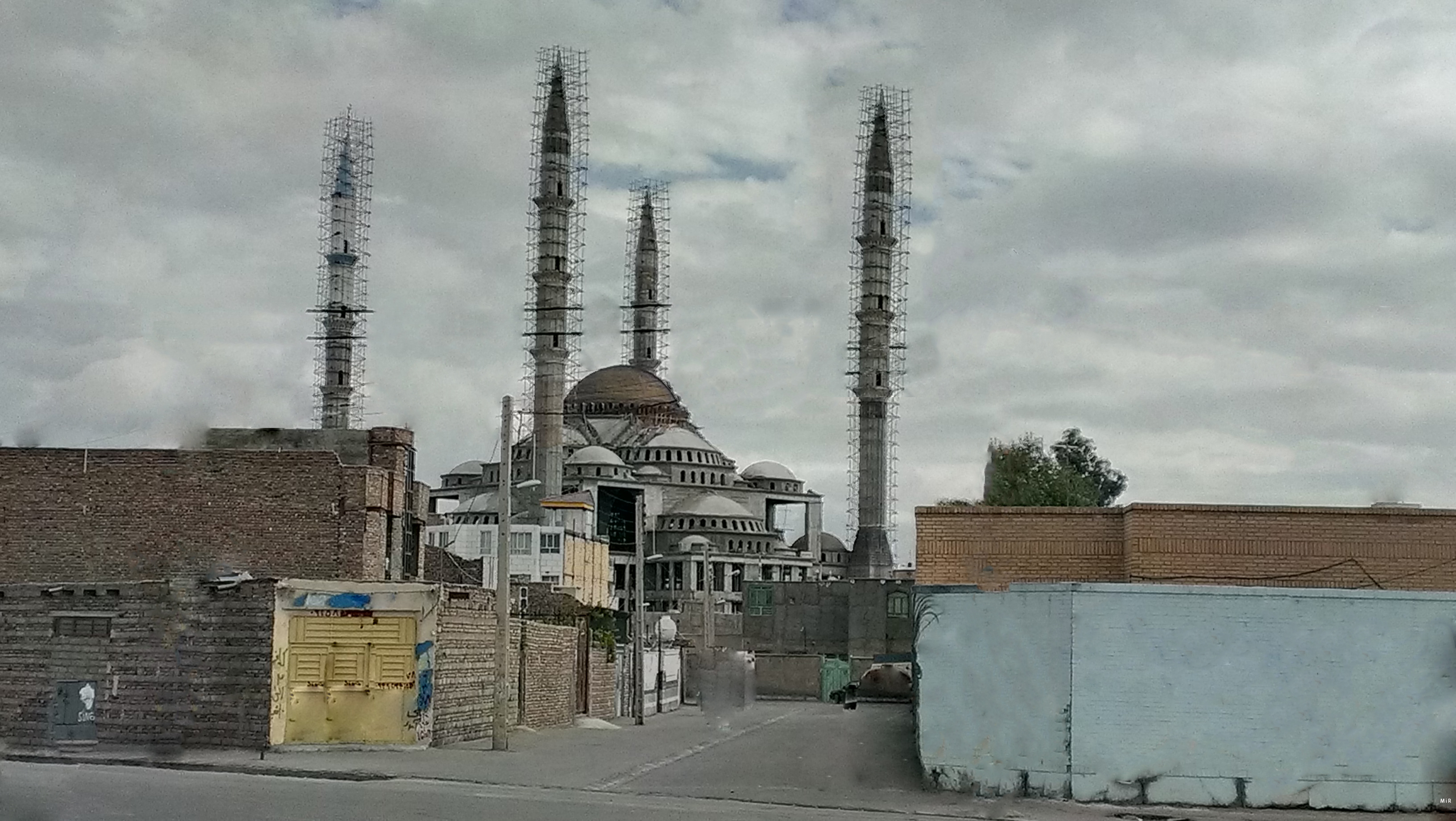 A view to the makki mosque